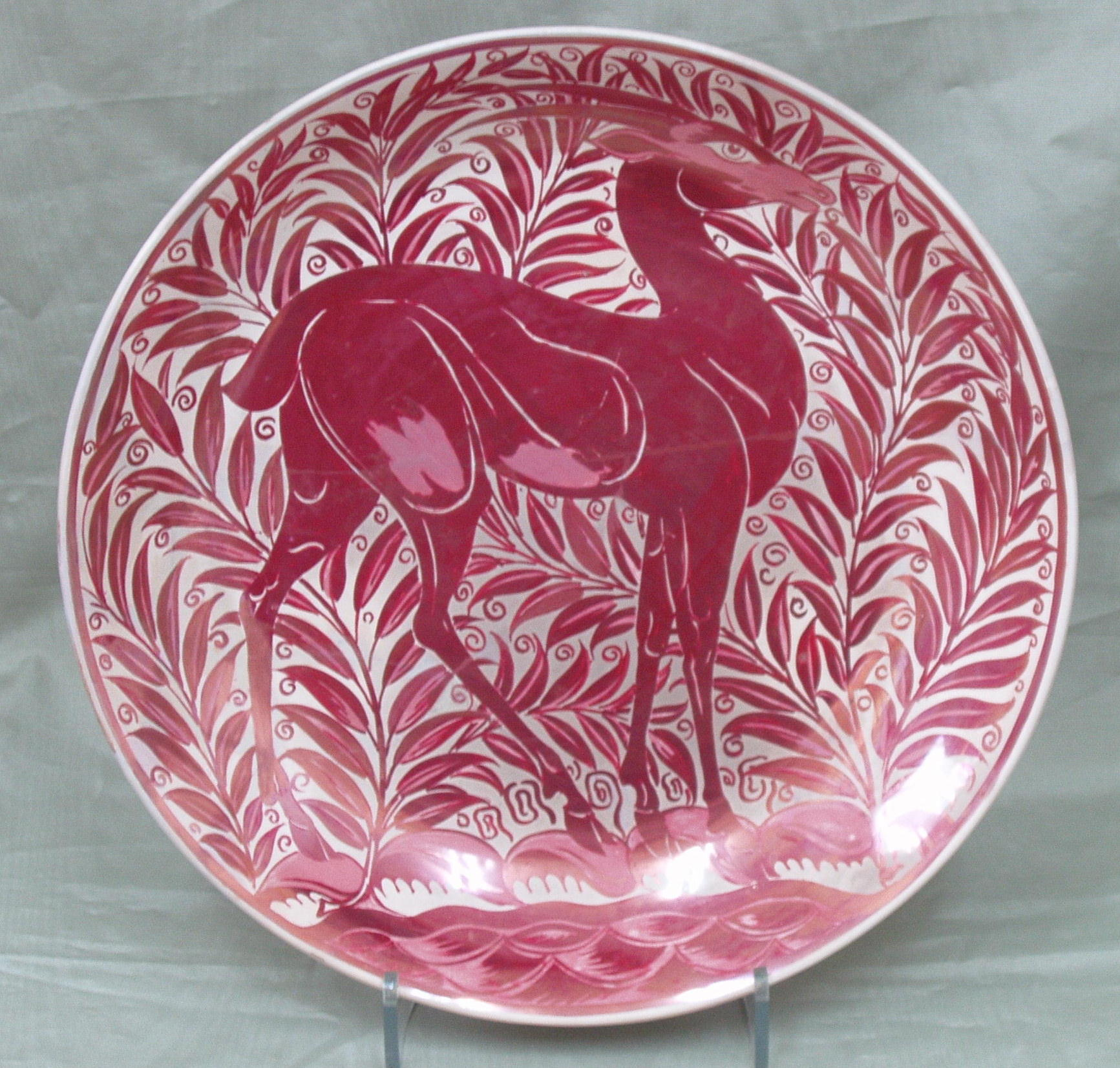 This charger is unusual in that it was decorated by John Pearson, better known as a founder member of the Guild of Handicraft in 1888. Prior to 1888 Pearson worked at William De Morgan's pottery works and it is believed that his later metalwork was inspired by his time at the works.